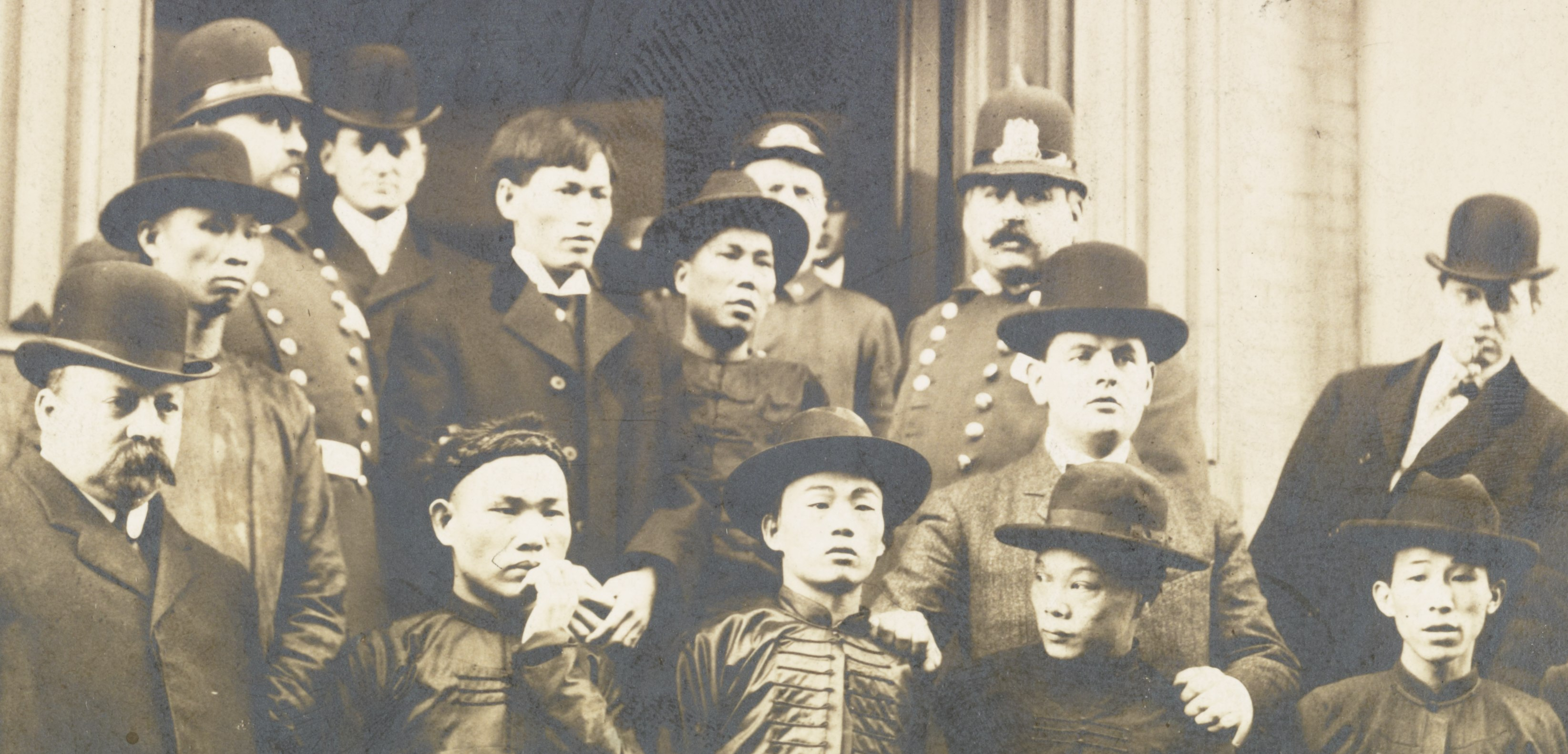 Title: Chinamen arrested after Mock Duck & Tom Lee factions' shooting in Chinatown Abstract/medium: 1 photograph : gelatin silver print ; 16 x 22 cm.